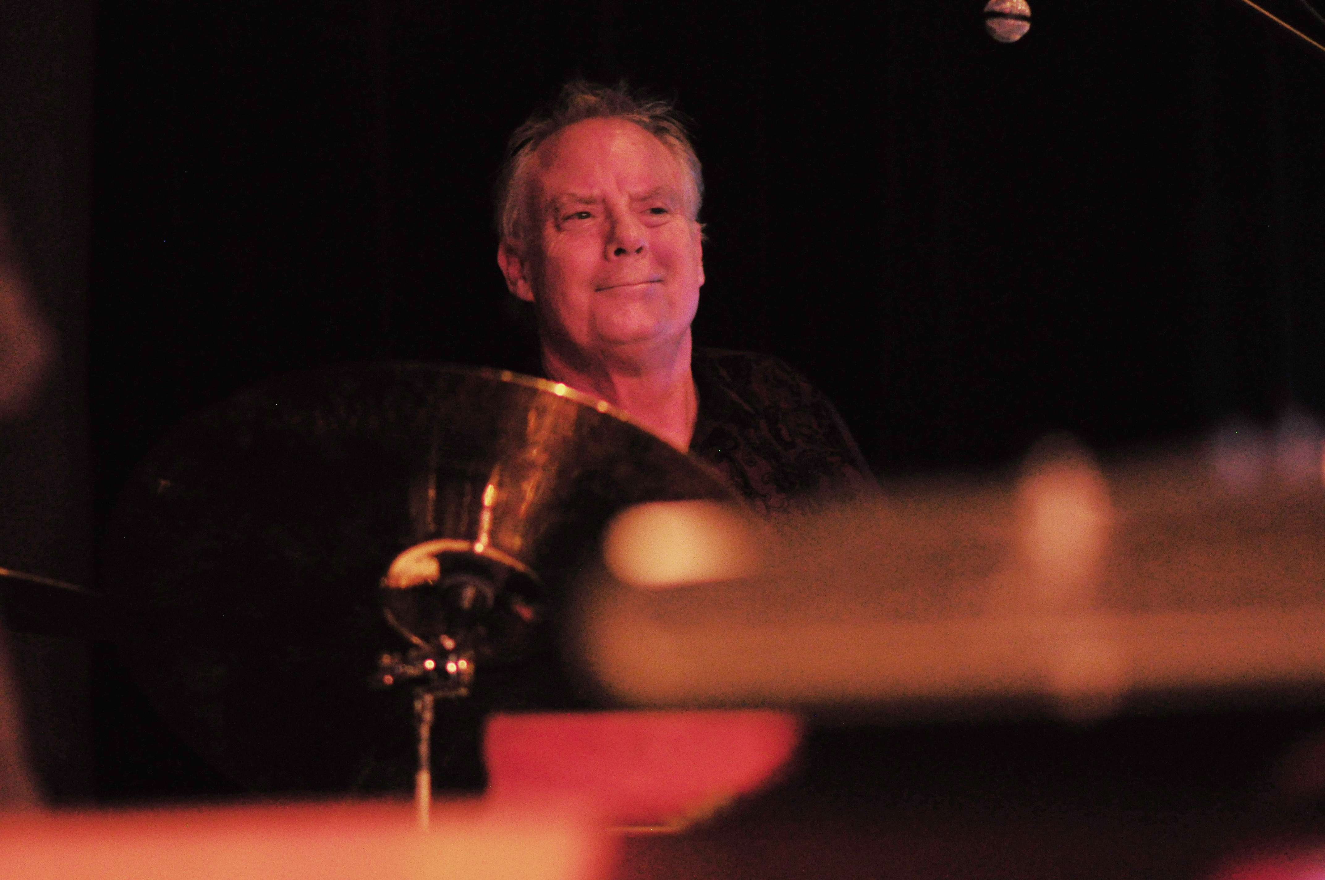 Michael Shrieve sitting in with Wayne Horvitz's Pigpen (not shown) at the OK Hotel Family Reunion, Royal Room, Columbia City, Seattle, Washington Sunday night, February 28, 2016.